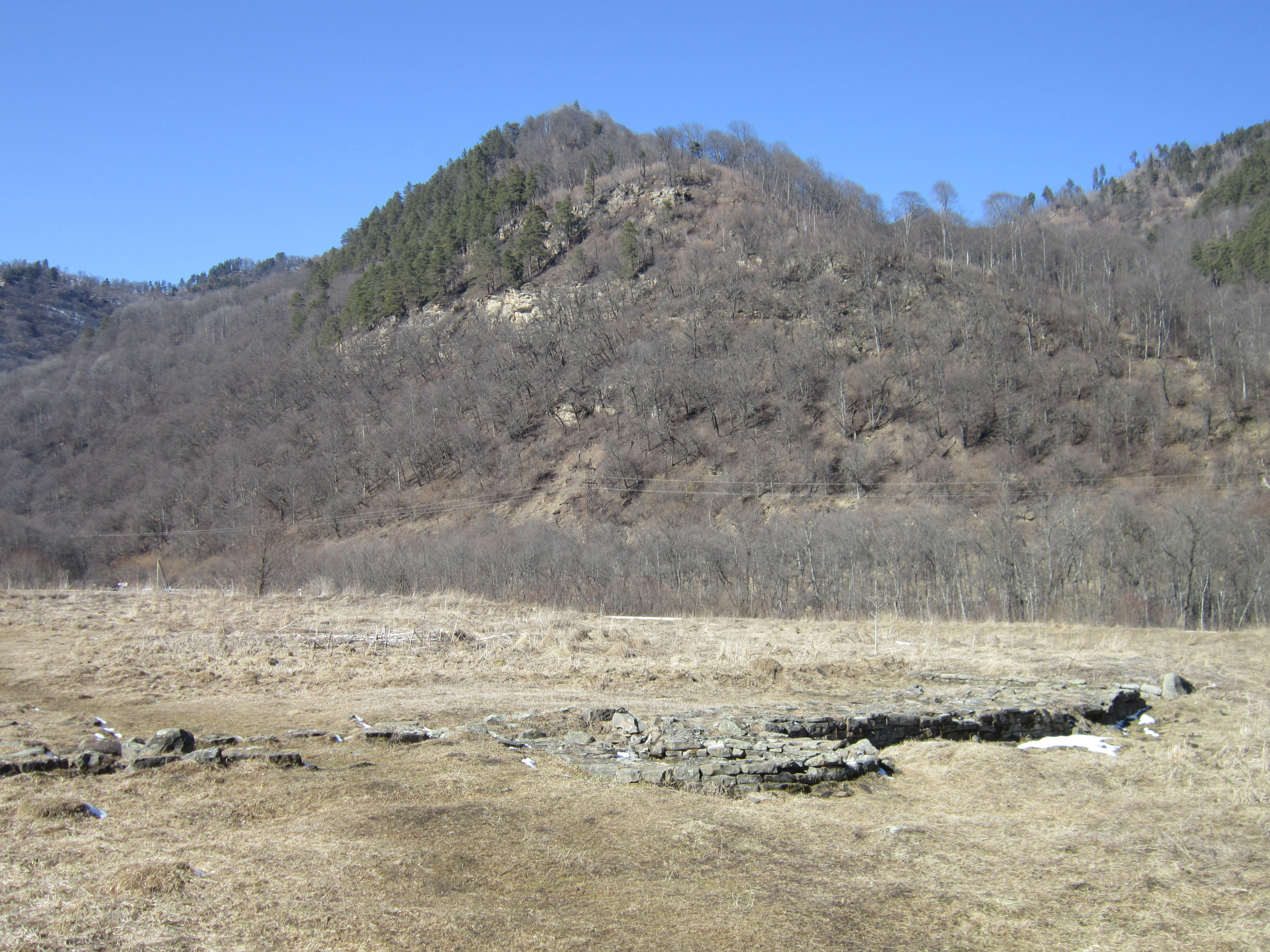 Astronomical circle